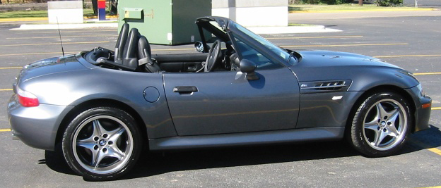 Side view photograph of a 2002 BMW Z3 M Roadster taken by David McNett (me) on 23 February 2002. Full photo is available at